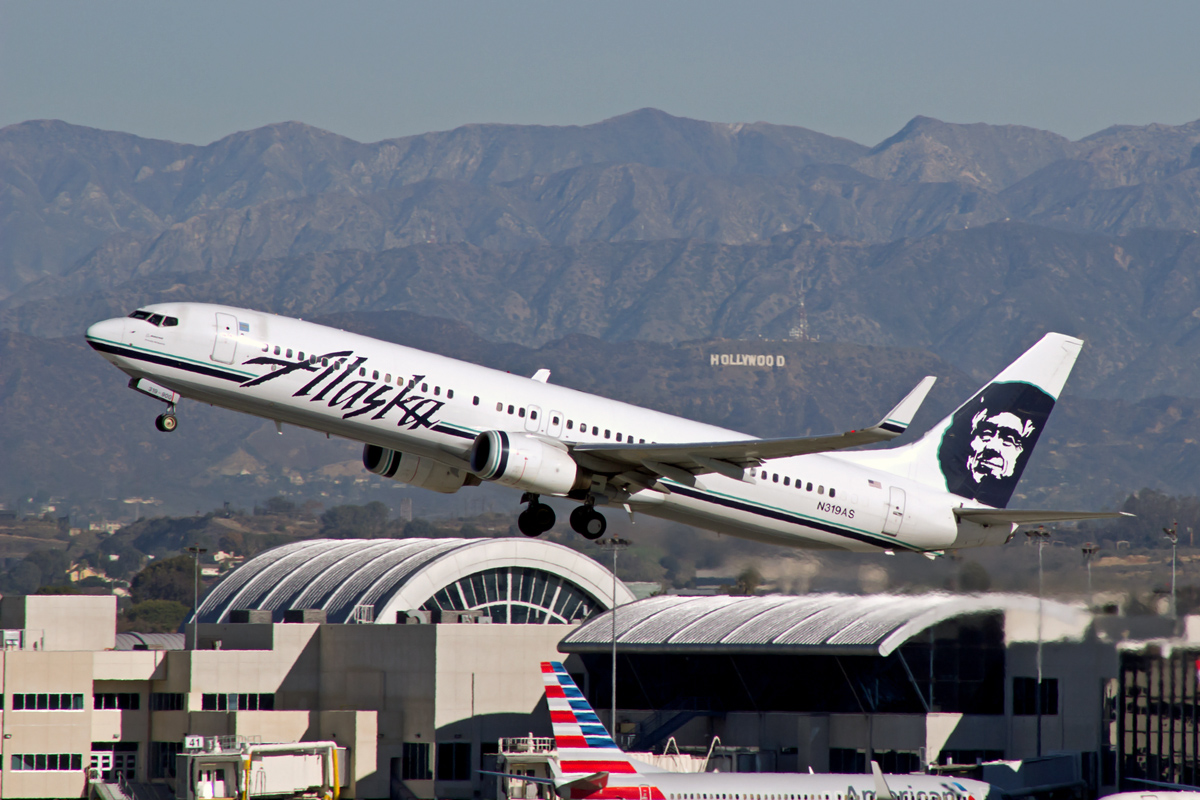 Alaska Airlines Boeing 737-900 N319AS departing LAX in January 2015.